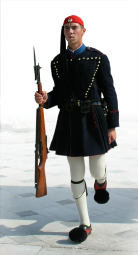 Greek Soldier